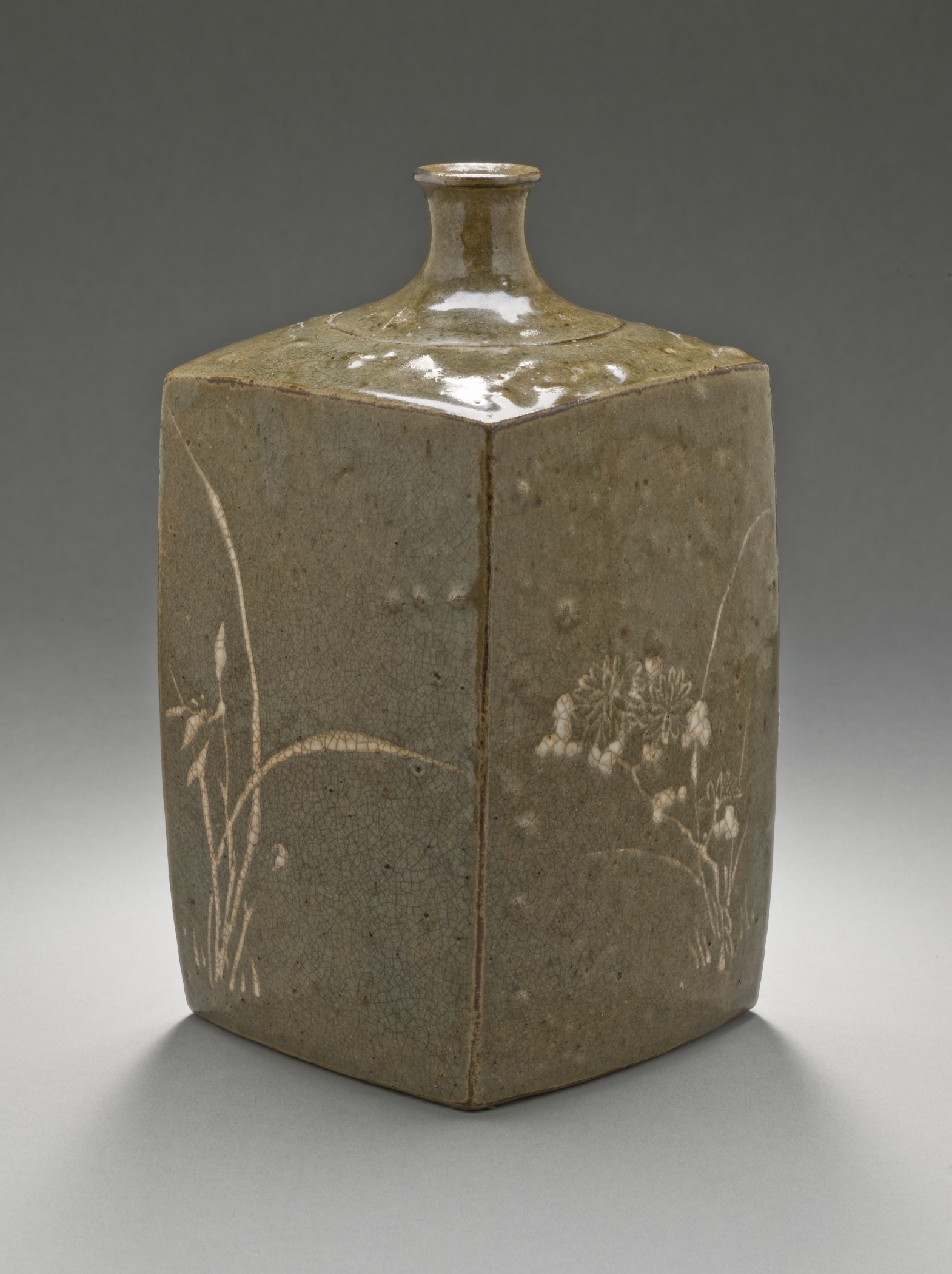 Japan, Edo period, late 18th-early 19th century Alternate Title: Tokkuri Furnishings; Accessories Yatsushiro ware; stoneware with glaze and white slip decoration Gift of James D. and Veronica H. Roorda (M.2007.226.24) Japanese Art